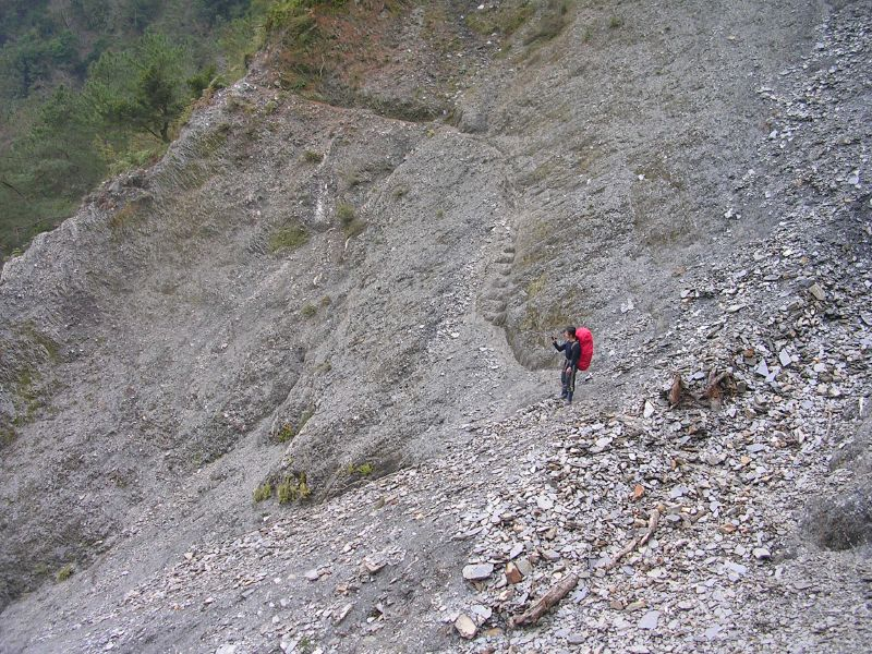 There is a big collapse(Tuge Fault) between Rakura and Tokatsu on the Batongguan Historical Trail.